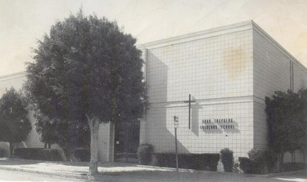 ERA Building at the Good Shepherd Lutheran School, Inglewood, California. *Designed in the late 1960's, constructed between circa 1969–1970 — and opened in 1970.